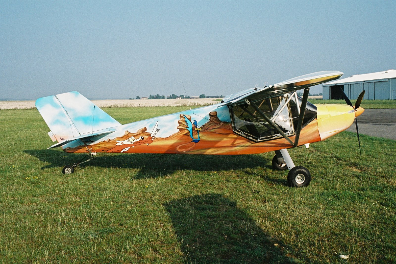 A Rans Coyote W116 painted by Roger Minne (Belgium) Owner : Serge Van Cutsem